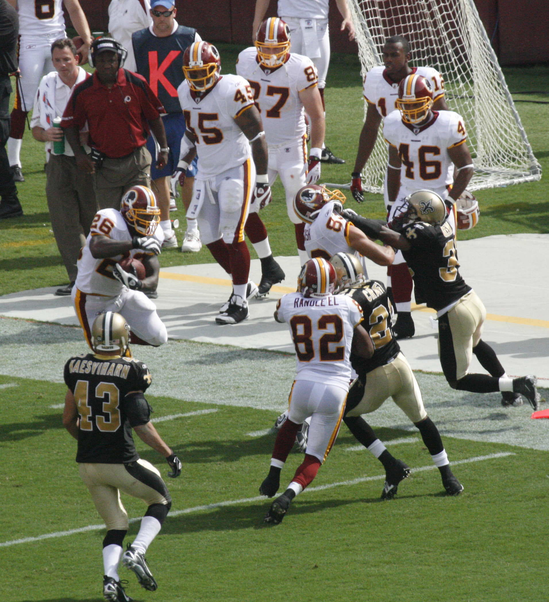 Clinton Portis runs with the ball in the Washington Redskins' game vs the New Orleans Saints.